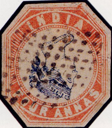 Source: M. J. Shah, The owner of the image is not stated, and unknown. The stamp is believed to be in the public domain, as it is nearly 150 years old. Also, it is a work of the then government of India. The scan is made at low resolution. The image would otherwise be unobtainable. This is believed to be fair use, as well, as it is for educational purposes and no pecuniary consideration is involved. [referring to image of a red Scinde Dawk, 1852] This is PD actually - not even a really exotic interpretation of copyright law could keep any 19th-century stamp out of the public domain. Stan 17:05, 10 October 2006 (UTC)Fconaway 17:10, 26 October 2006 (UTC)